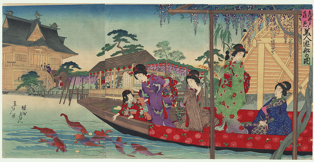 A scene of women enjoying a boat ride in front of the Kameido Tenjin Shrine